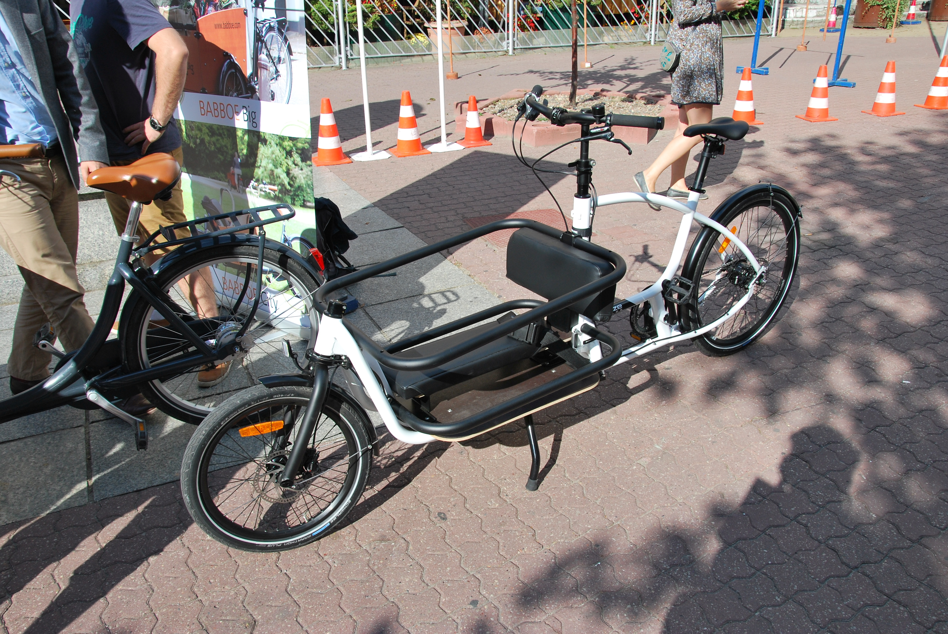 European Sustainable Mobility Week, Łódź September 2015